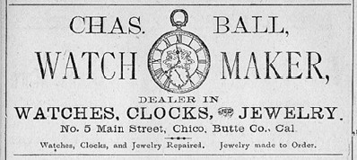 Charles Ball (April 4, 1819 – March 4, 1903) was the third and fifth President of the Chico Board of Trustees, the governing body of the city of Chico, California from 1876 to 1879, and from 1882 to 1885. He was a jeweler and watchmaker. Other information Advertisement in the City & County Directory of Yuba, Sutter, Colusa, Butte and Tehama Counties 1881